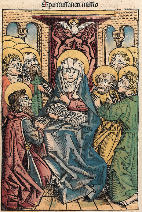 This is a part of a scan of an historical document: Title: Schedelsche Weltchronik or Nuremberg Chronicle